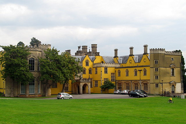 Ashton Court Mansion in Ashton Court Estate Ashton Court Estate was acquired by Bristol City Council in 1959, but the place has a long history. There is clear evidence of the ridged strips of Saxon fields, but with the coming of William the Conqueror the area was transferred into Norman ownership. In 1392 Thomas de Lyons was granted a licence to enclose his lands and make a park, the foundation of the modern one. During the 16th century Ashton Court was bought by John Smyth, a merchant from Small Street. He and his descendants gradually enlarged, rebuilt, remodelled and reconstructed various parts of the house. In 1939 it was requisitioned by the War Office, used in turn as a Transit Camp, RAF HQ and American Army Command HQ. The last Smyth owner died in 1946 and for 13 years the house, already in disrepair, lay empty. When the City Council bought the Estate much expensive work had to be carried out. Gradually considerable conservation and restoration has been achieved and is still continuing.